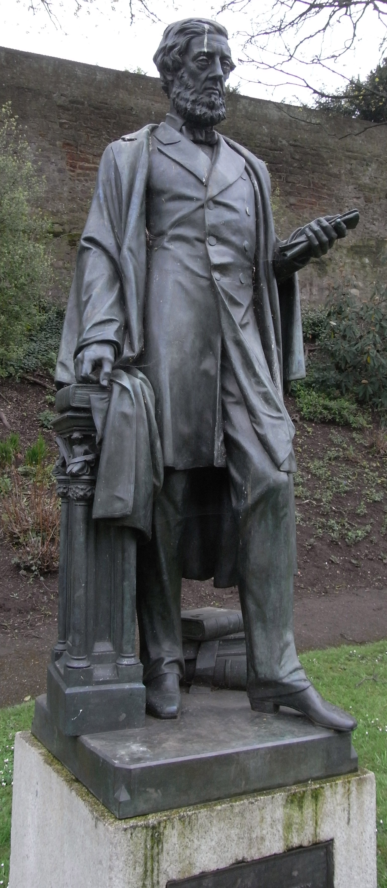 Statue of William Reginald Courtenay, 11th Earl of Devon (1807-1888), by Edward Bowring Stephens, Northernhay Gardens, Exeter (since 9th Feb.2010, formerly in Bedford St, formerly in Bedford Circus, where it escaped bomb damage in WW II). On a brass plaque affixed to front of plinth: "William Reginald Courtenay (1807-1888) 11th Earl of Devon. This statue stood in Bedford Circus prior to World War II. The statue was re-erected on this site (i.e. Bedford Street) by Exeter City Council & Devon County Council as part of a joint landscaping scheme". Inscribed on a granite slab on the ground at the front of the plinth: "Lord Devon was moved in 2010 to Northernhay Gardens from Bedford St".